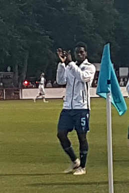 Players of the HFX Wanderers after a 2019 Canadian Championship match at Wanderers Grounds in Halifax, Nova Scotia, on 10 July 2019.